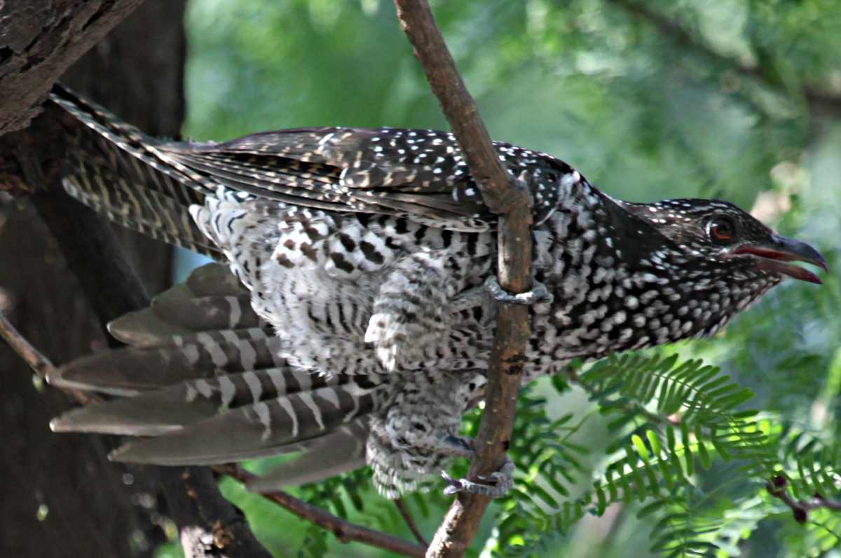 Asian Koel (Female)